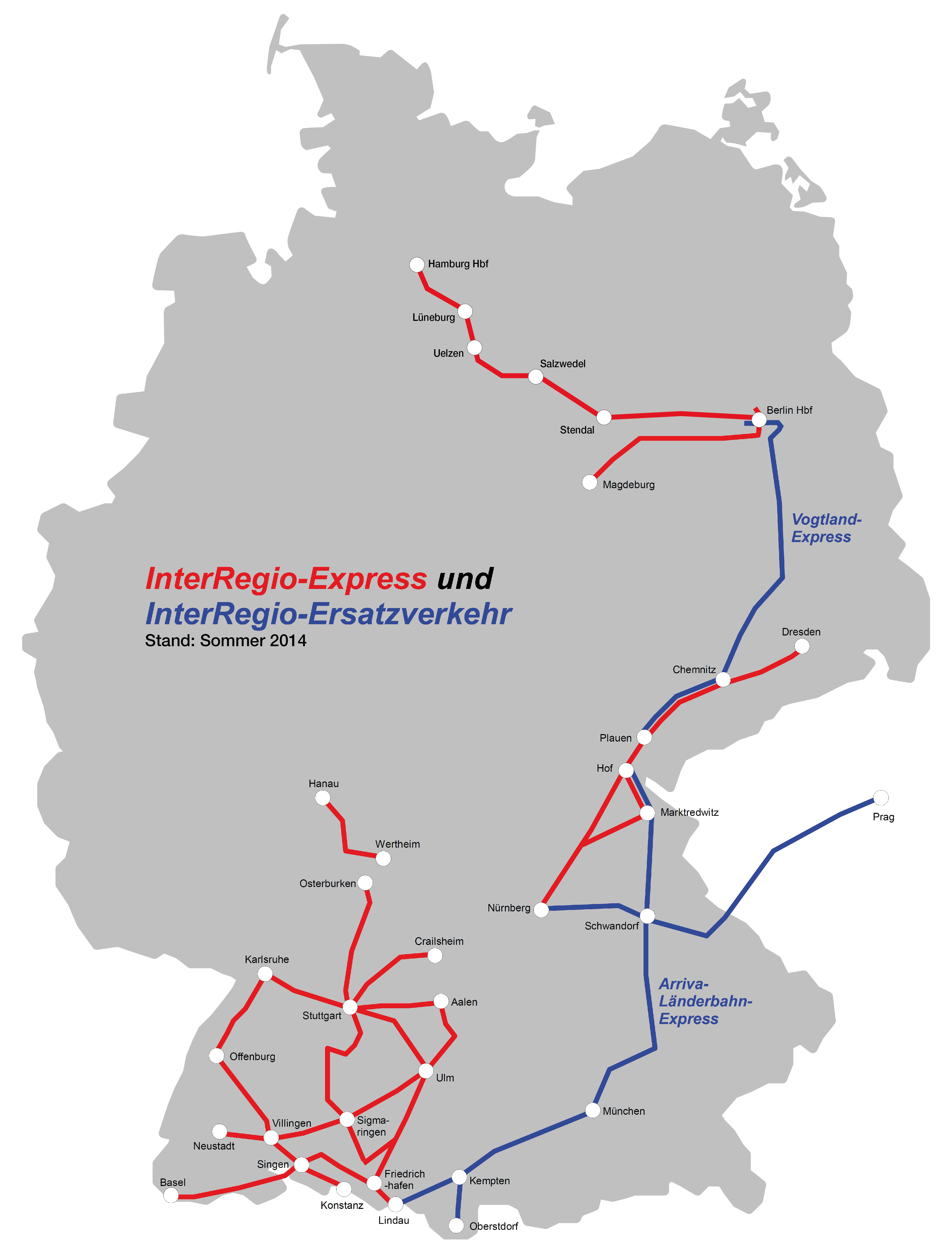 Network of the "Interregio-Express" railway services of the Deutsche Bahn in Germany and Network of railway services replacing the former "Interregio" services of the Deutsche Bahn 2014